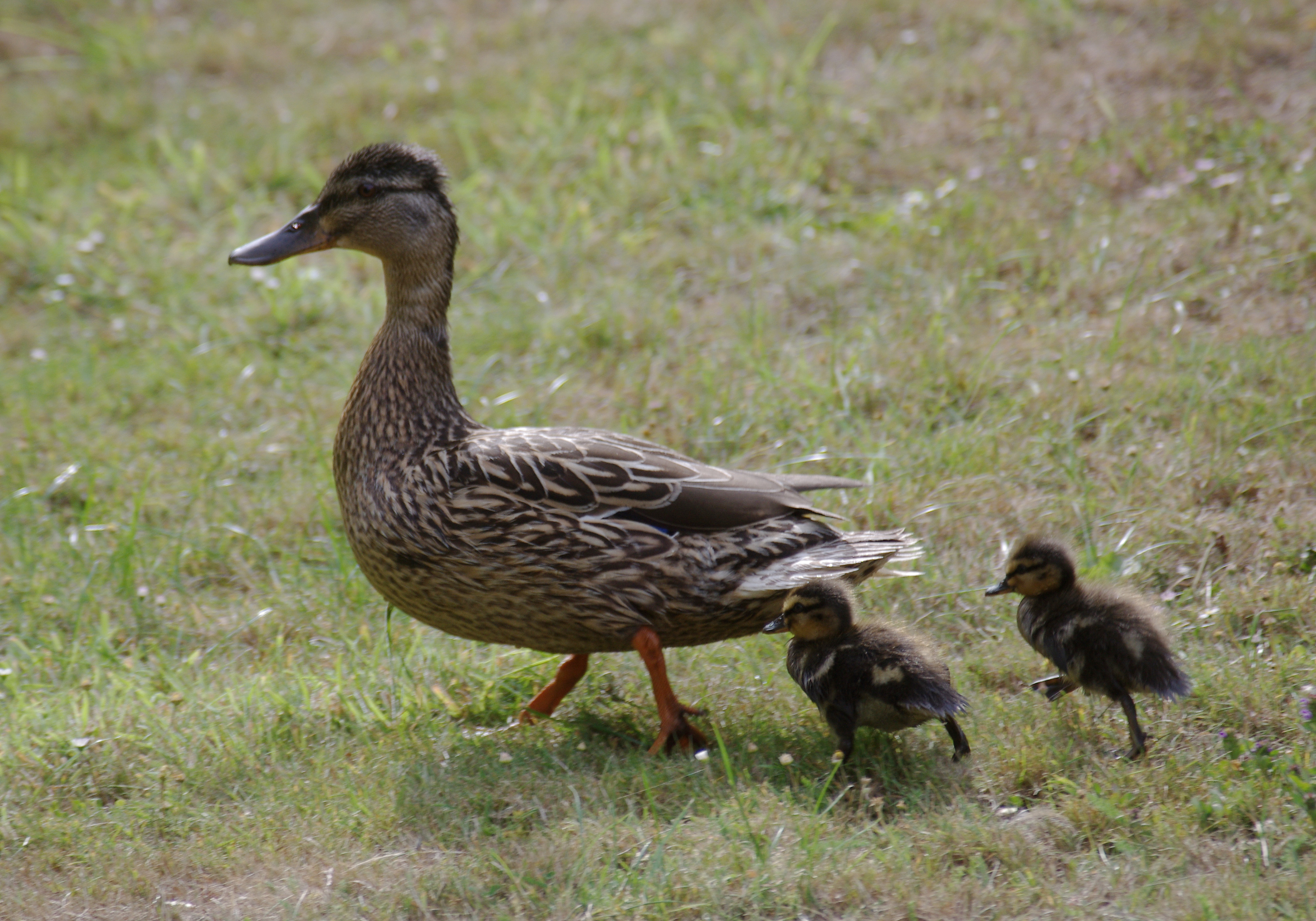 A Mallard mother with chicks in Wraxall, Somerset, England.